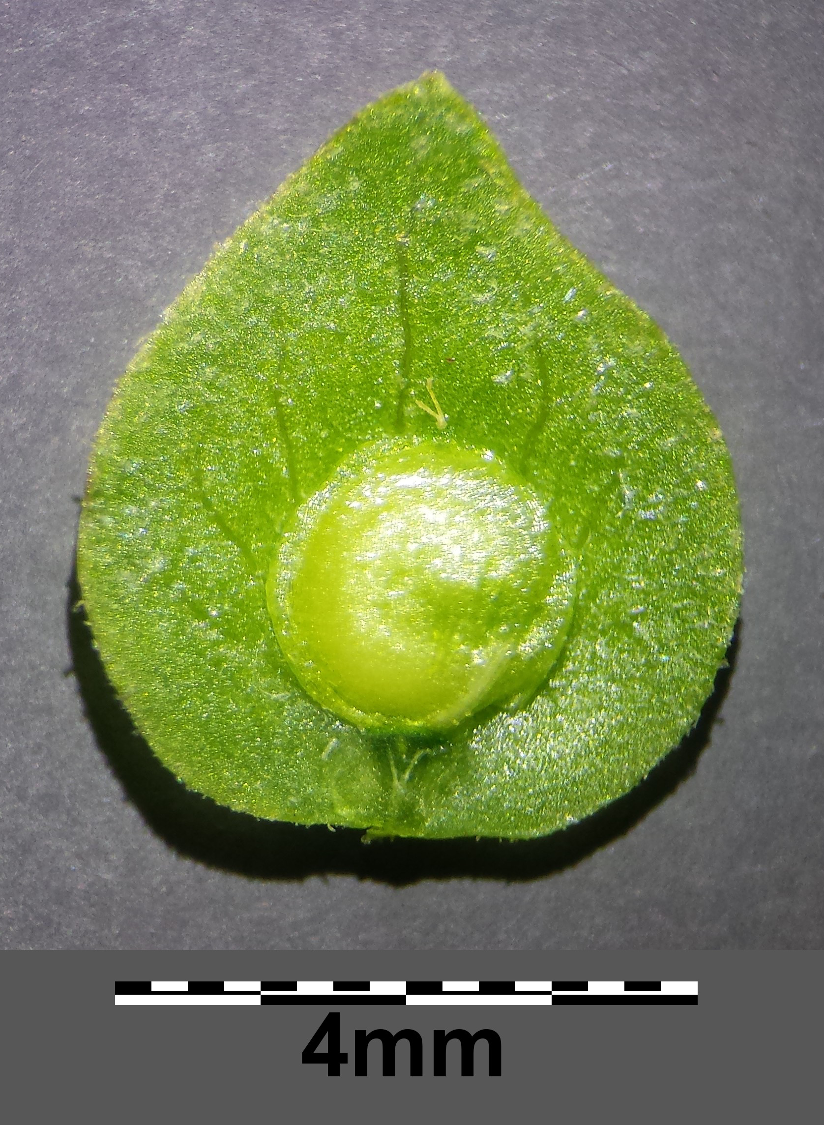 Female flower with two prophylls, front prophyll removed Taxonym: Atriplex sagittata ss Fischer et al. EfÖLS 2008 ISBN 978-3-85474-187-9 Location: Sinawastingasse, Vienna-Floridsdorf - ca. 160 m a.s.l. Habitat: slope